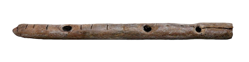 Bone flute dated in the Upper Paleolithic from Geissenklösterle, a german cave on the Swabian region. Replica.